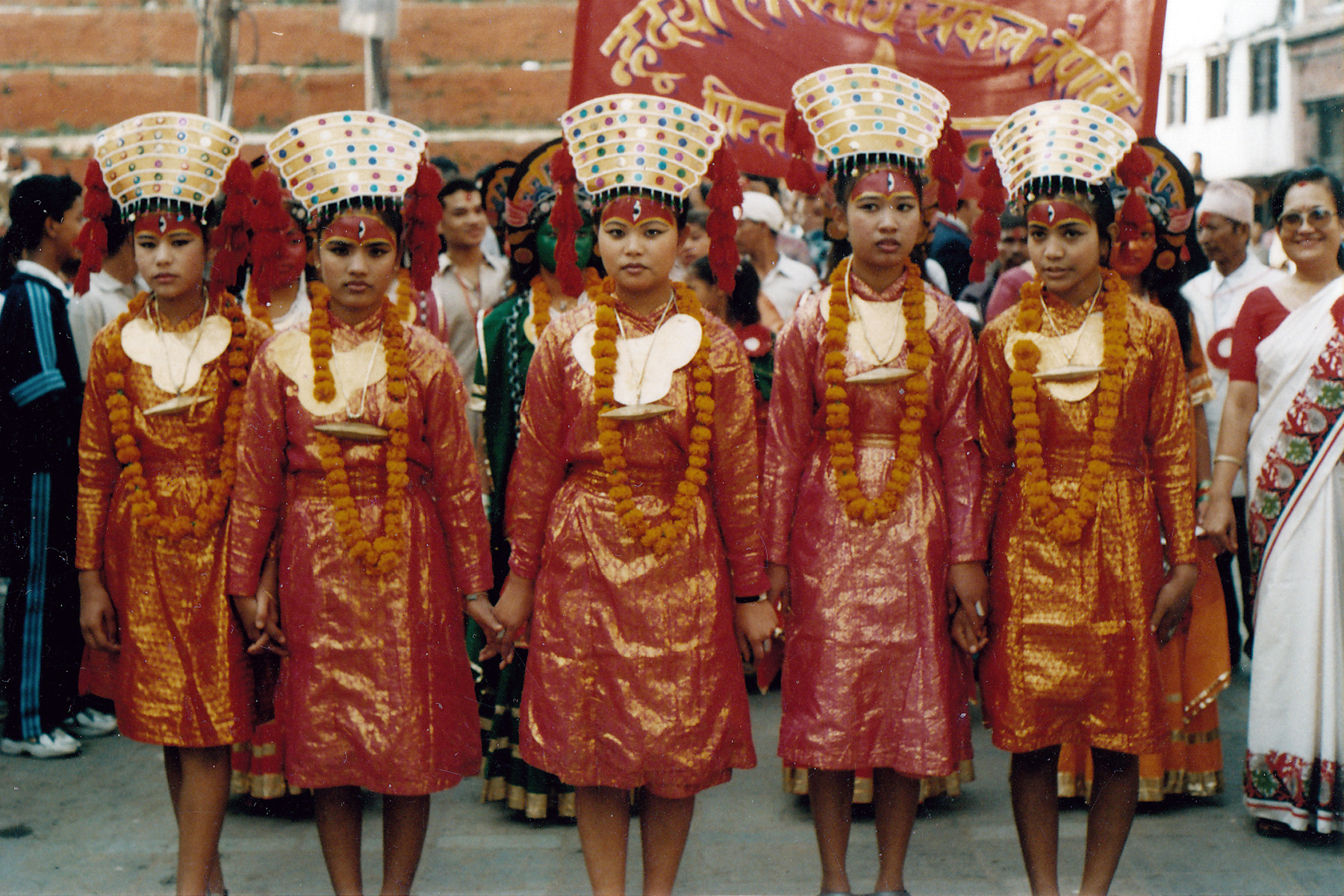 Actors dressed up as Kumari vestal virgins take part in Nepal Era New Year's Day parade in Kathmandu.